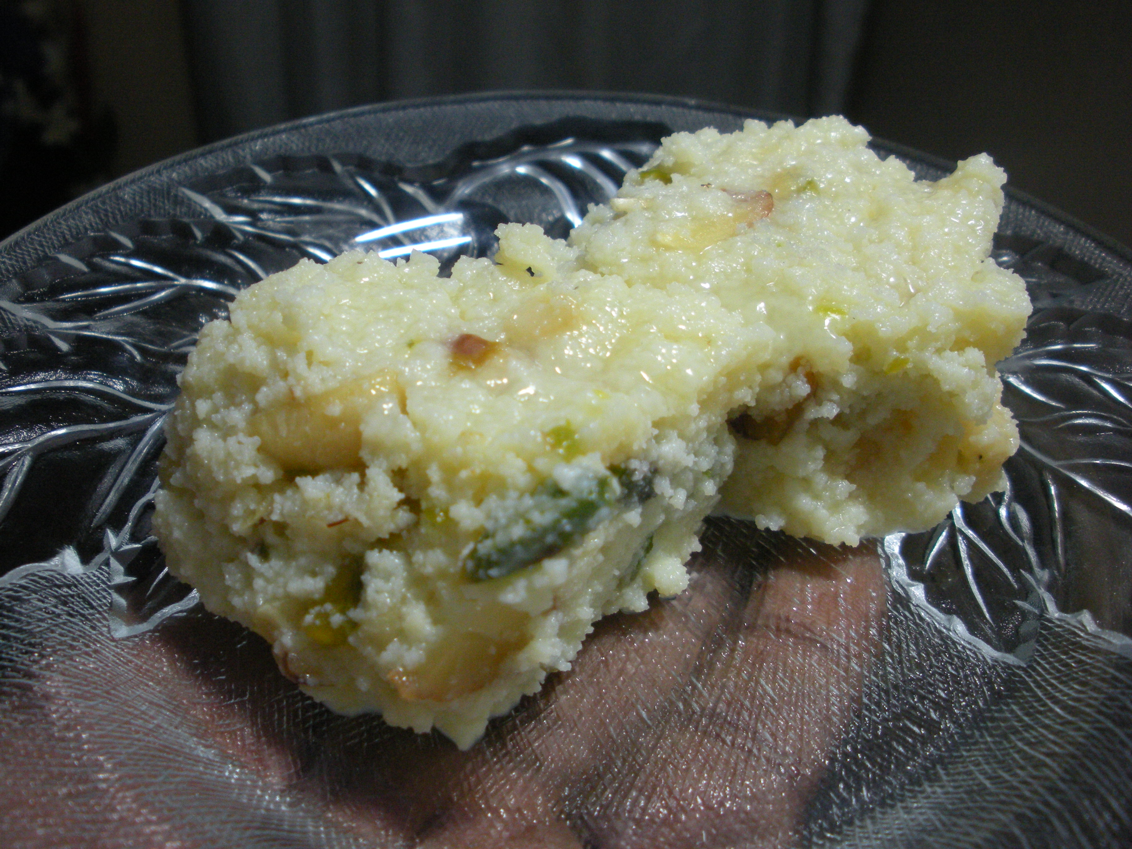 Kalakand sweet